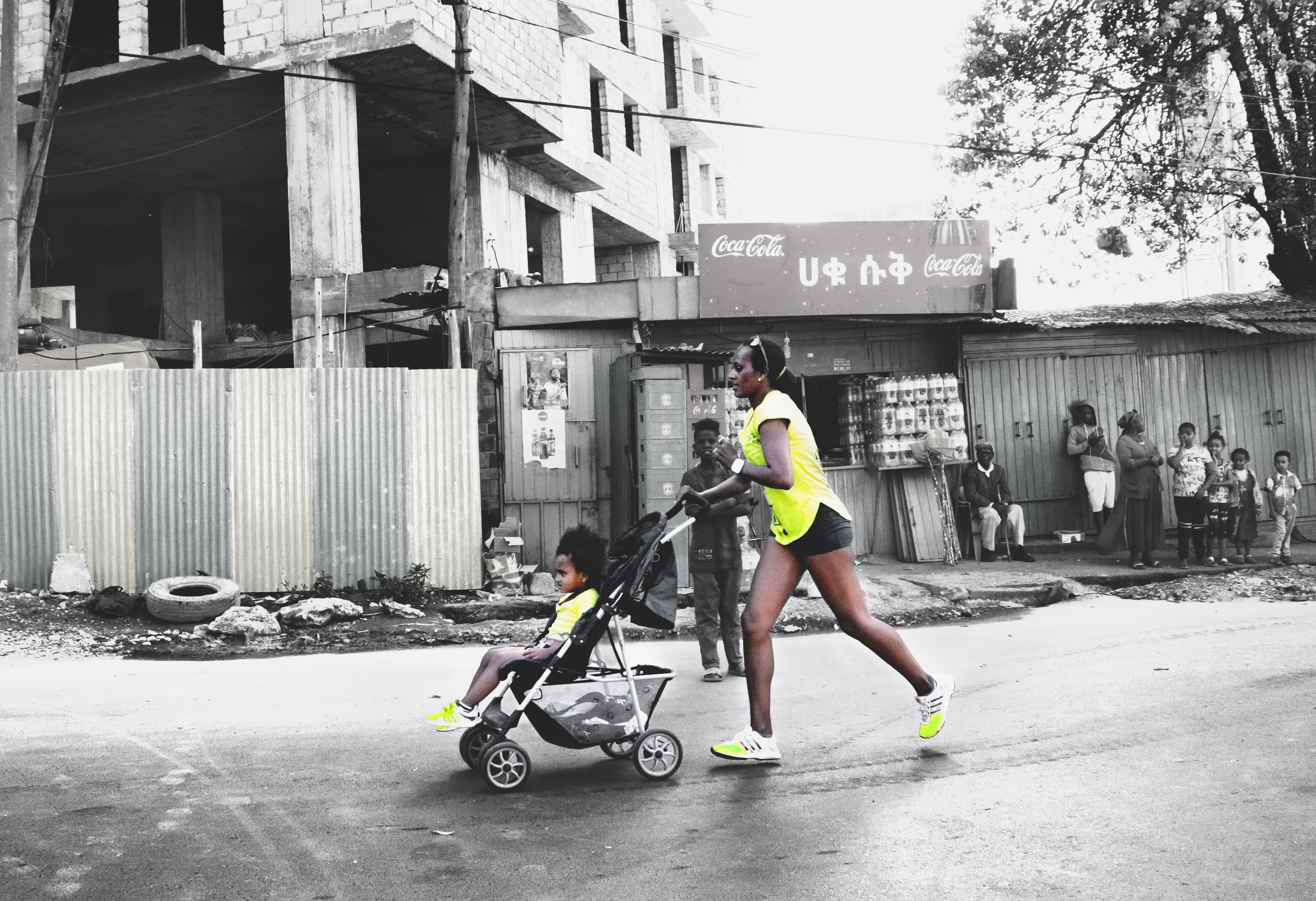 This is an image with the theme "Play" from: Ethiopia